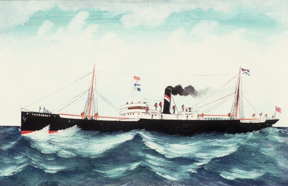 A painting from the Framed Works of Art collection at the National Library of wales.